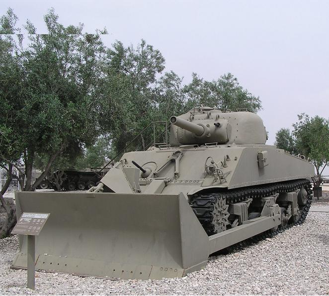 M4(105) Sherman medium tank with a dozer blade in Yad la-Shiryon Museum, Israel. Labeled as M4A3, but has Continental engine.